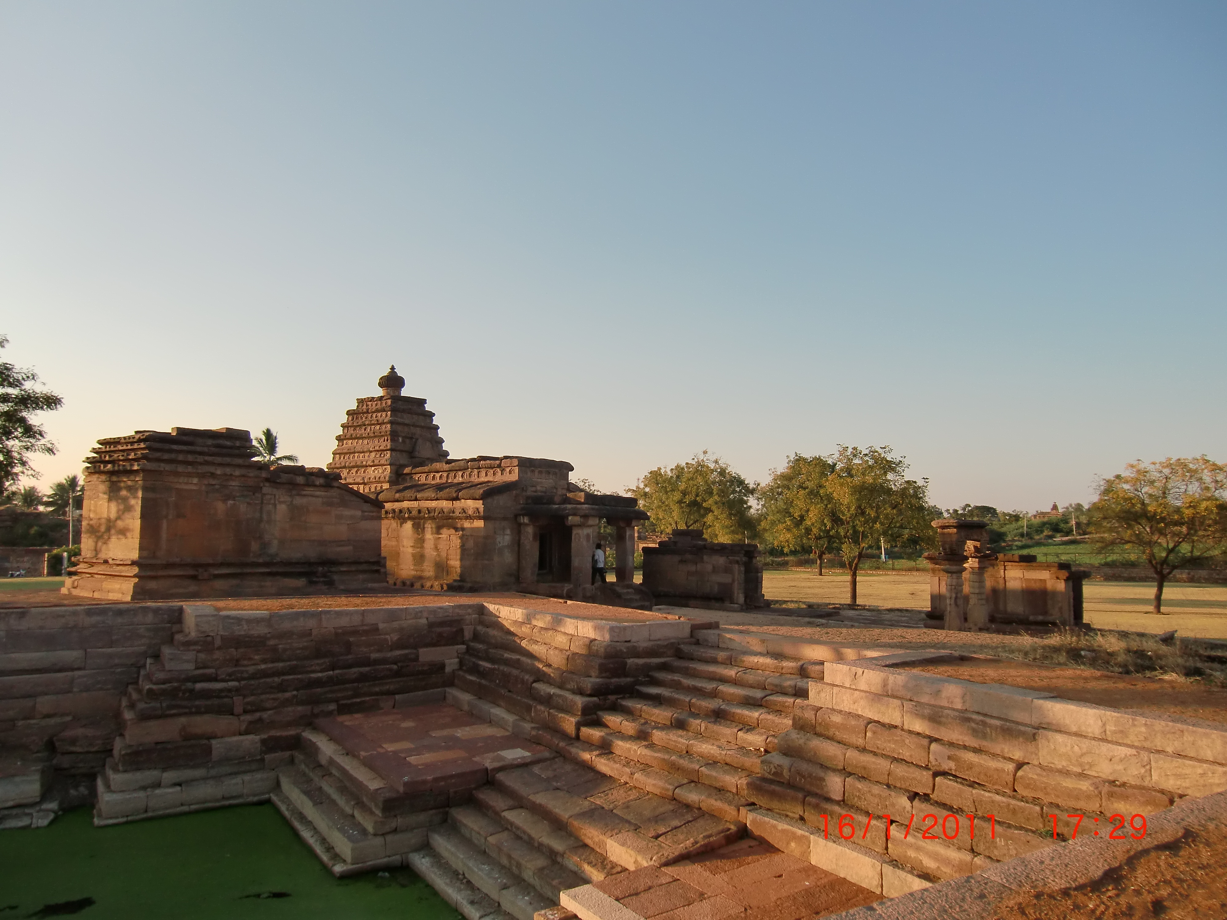 Mallikarjuna temple complex at Aihole Hubli, Karnataka(North), India